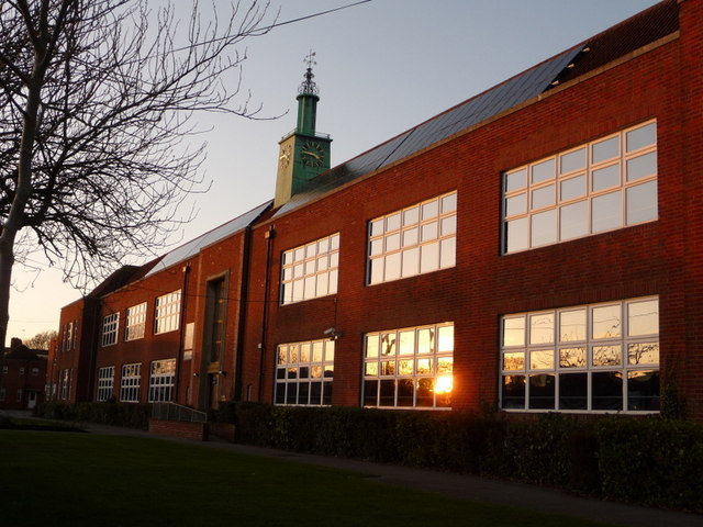 Charminster: evening sun reflected in Bournemouth School The fading remnants of the Christmas Day sun is reflected in one of the windows of 676532.